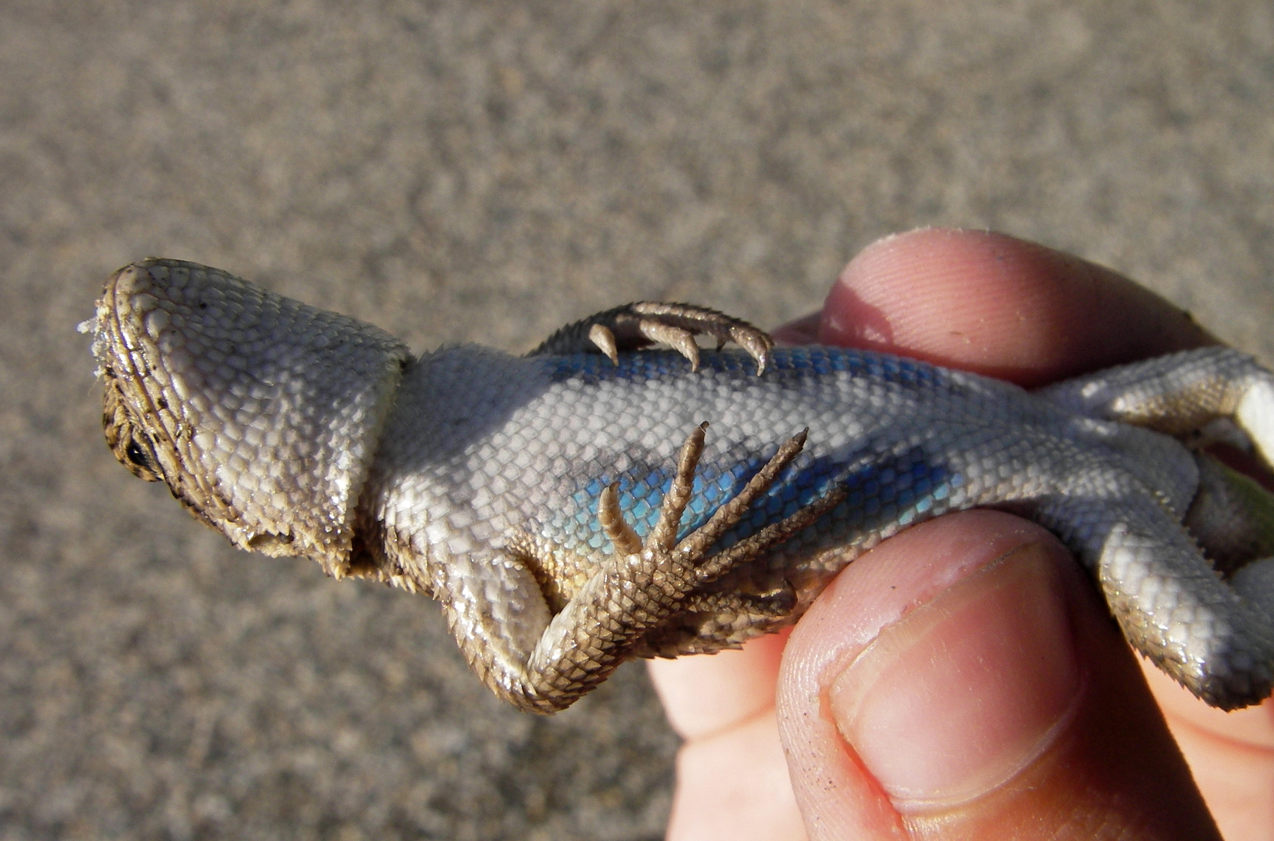 The belly of a male Southern sagebrush lizard (Sceloporus graciosus), recognisable by virtue of the blue ventral patches.